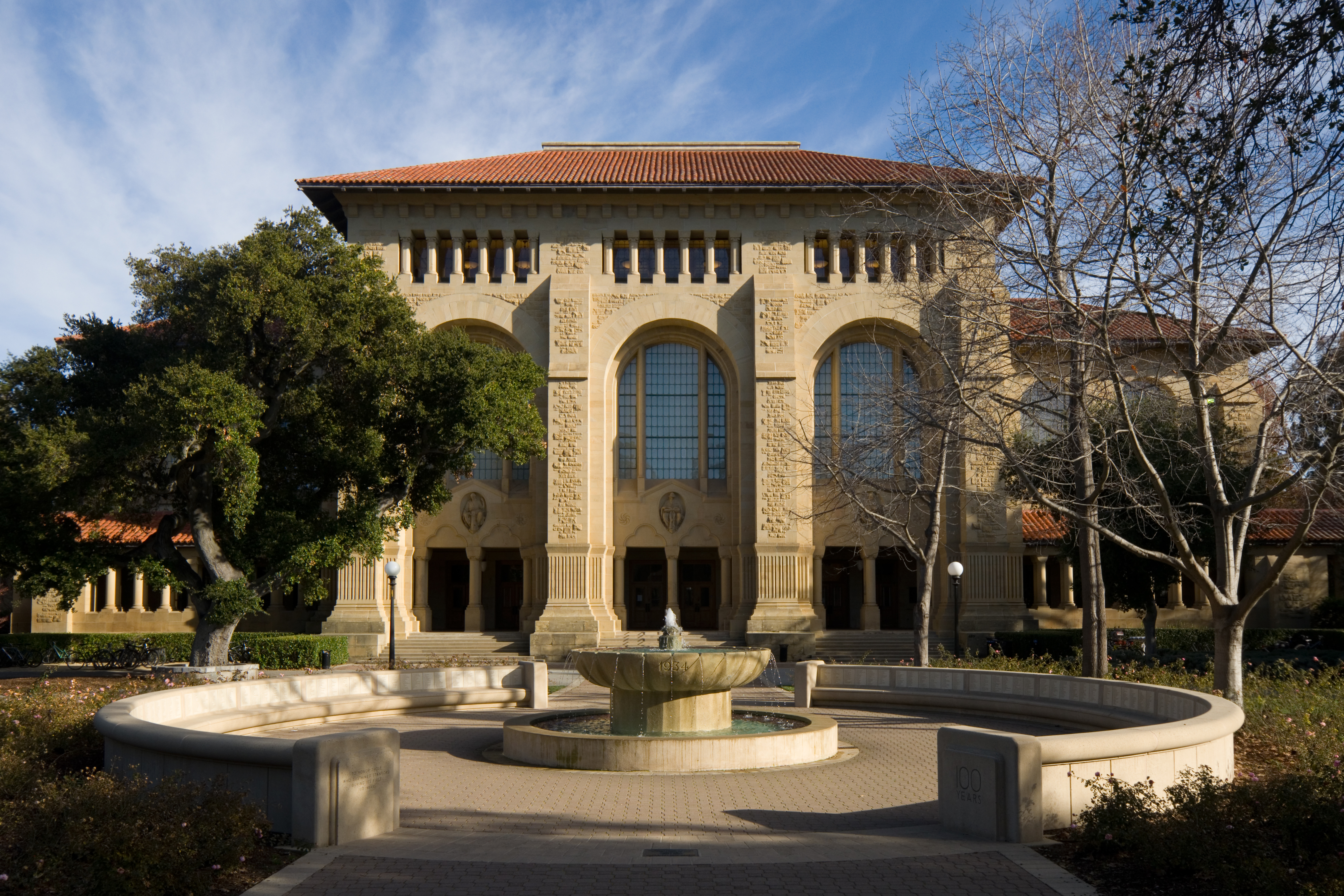 Bing Wing of the Cecil H. Green Library, Stanford University